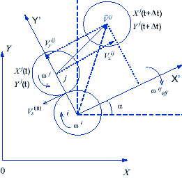 MCA Deformation in Pair of Automata